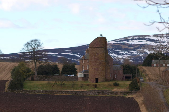 Balfour Castle near Kingoldrum Picture shows the ruins of Balfour Castle, a former stronghold of the Ogilvies of Balfour and is said to have been erected in the 16th Century by Cardinal Beaton for his mistress, Marion Ogilvy, and their children.